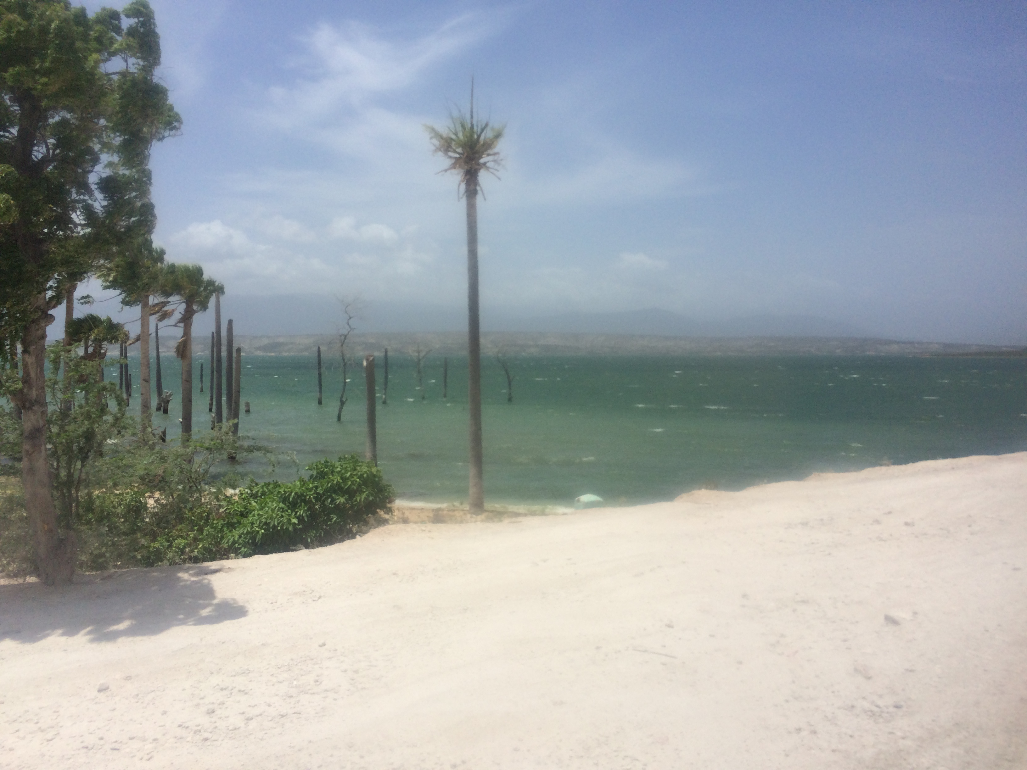 Etang Saumâtre, also known as Lake Azuei, is the largest lake in Haiti. Its waters are mostly brackish, and differently from its twin Lake Enriquillo, the lake is expanding.